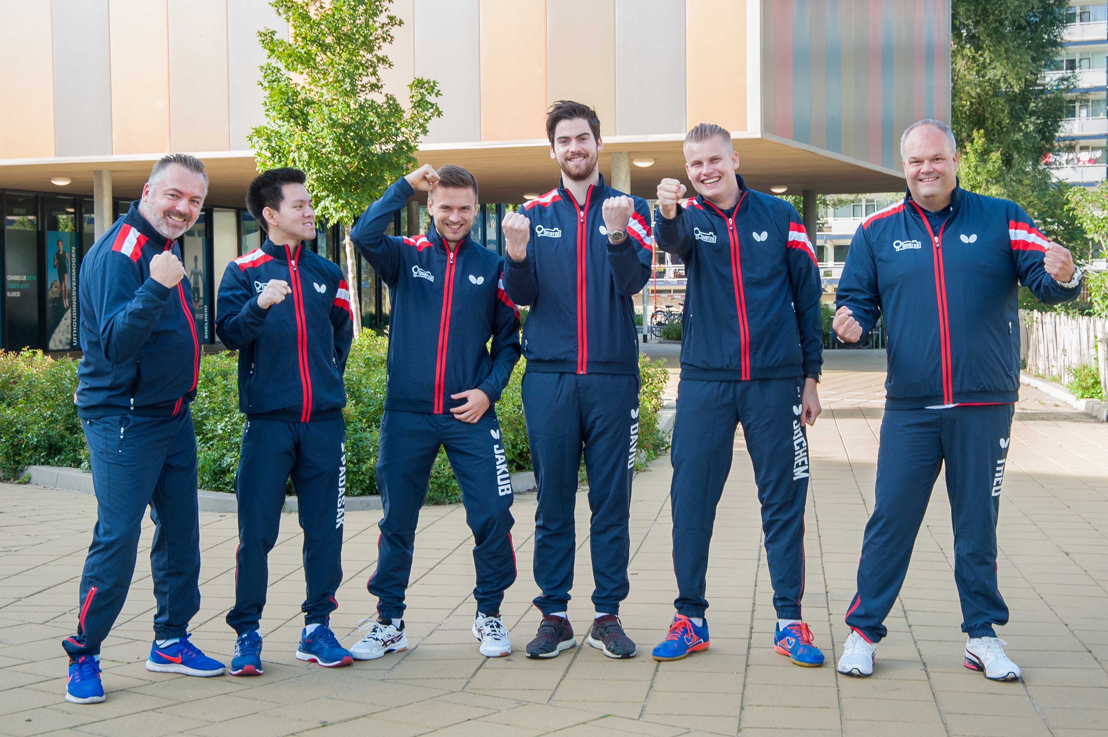 Table tennis team Taverzo (men), Zoetermeer, The Netherlands. In the background the table tennis location of Taverzo. From left to right: coach Ruud van Graafeiland, Padasak Taniviriyavechakul, Jakub Folwarski David McBeath, Jochem de Hoop and manager Theo Levert.